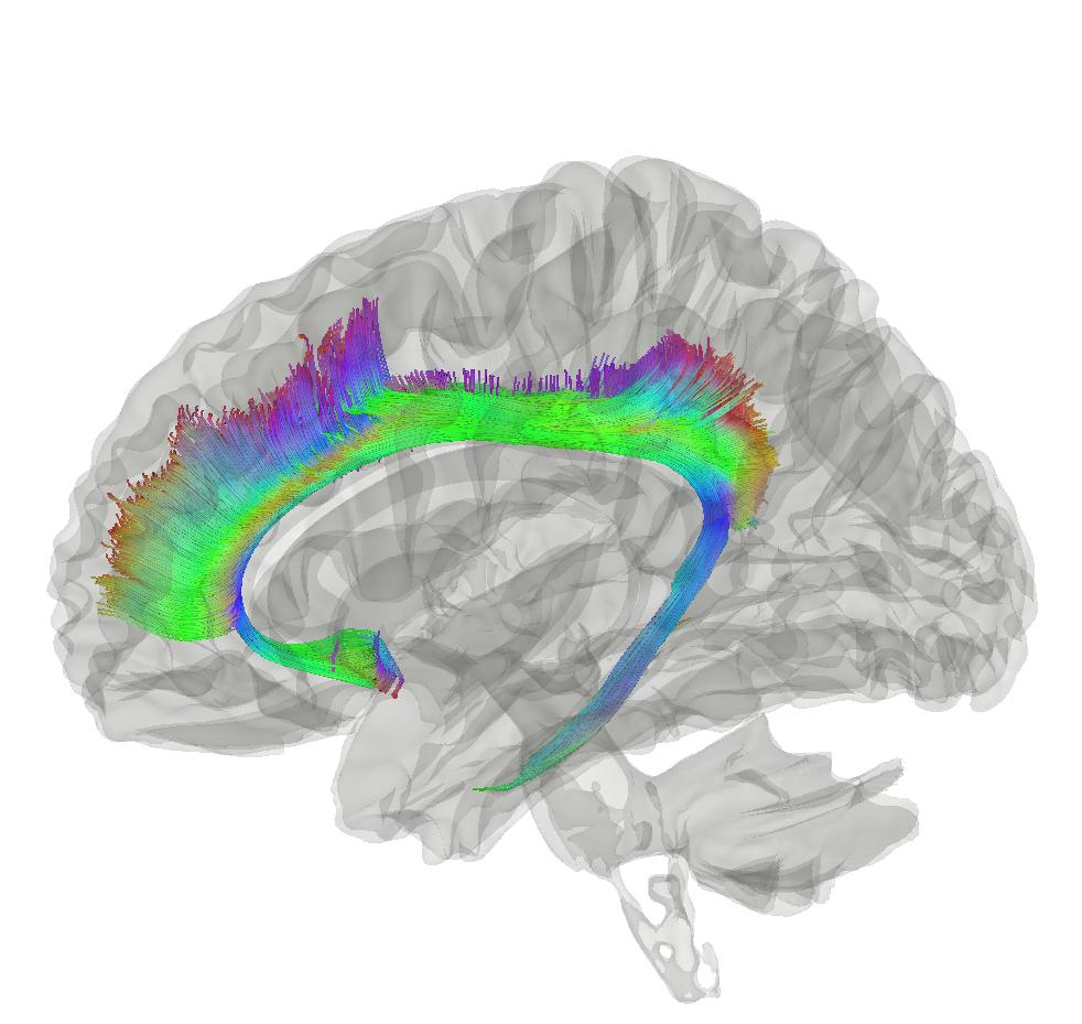 Tractography showing cingulum on a population-averaged template